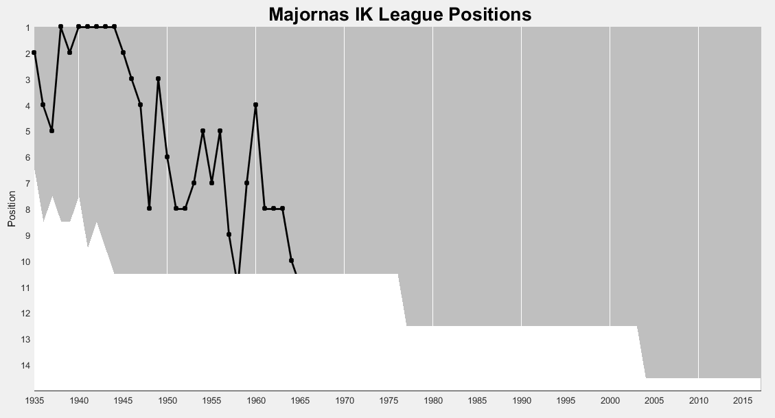 Majornas IK positions in the top division. The grey area denotes the number of teams in the top division. For split seasons, the autumn positions are shown when the team did not play in the top division in the spring season.